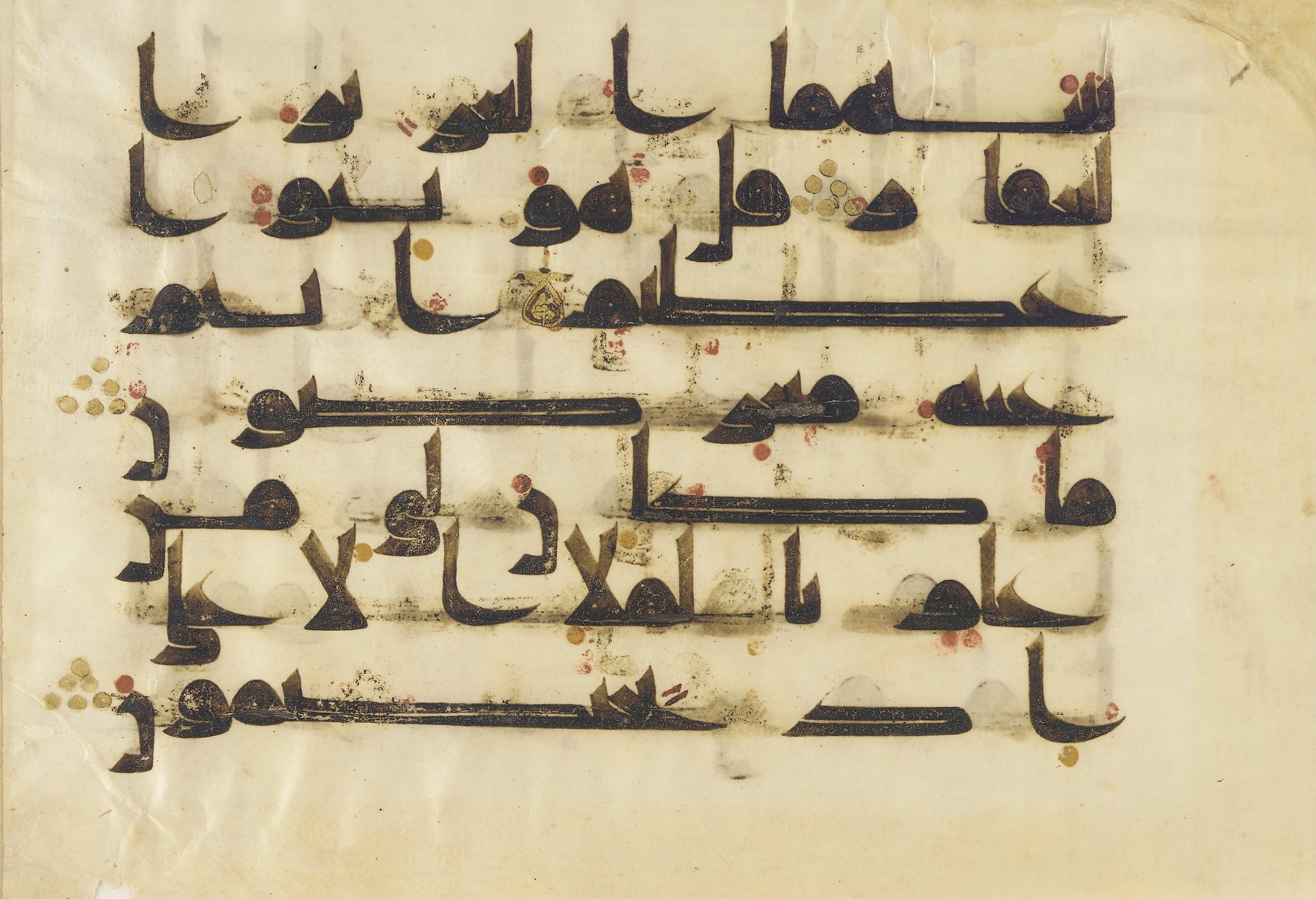 Folio from a Koran Ink, color, and gold on parchment H: 23.8 W: 33.8 cm North Africa or Middle East